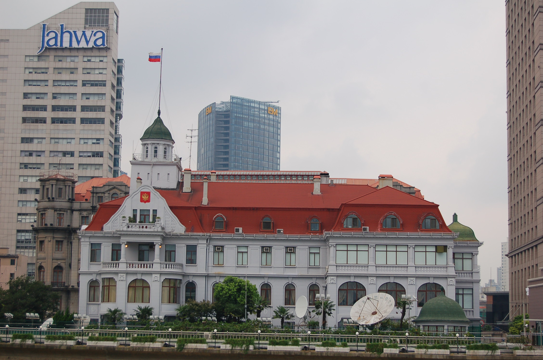 Sitting on a great piece of Shanghai real estate.